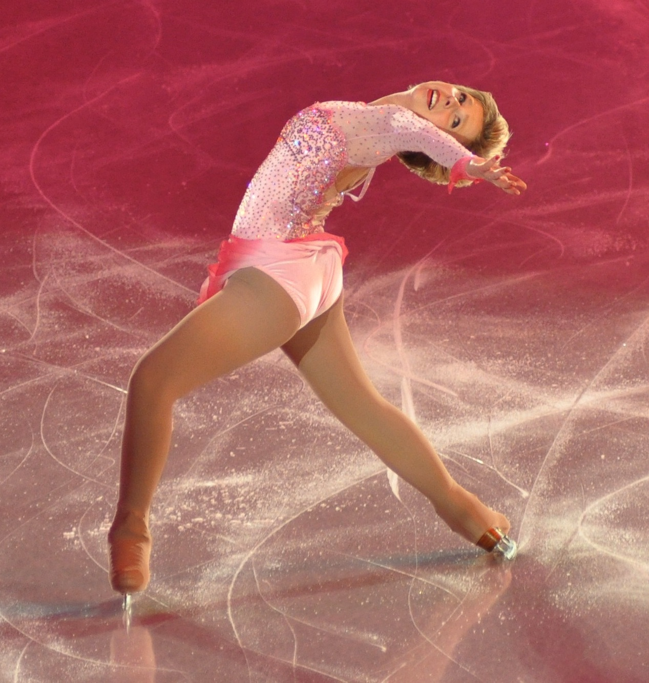 Figure skater Rachael Flatt performs at the 2011 U.S. Championships gala.